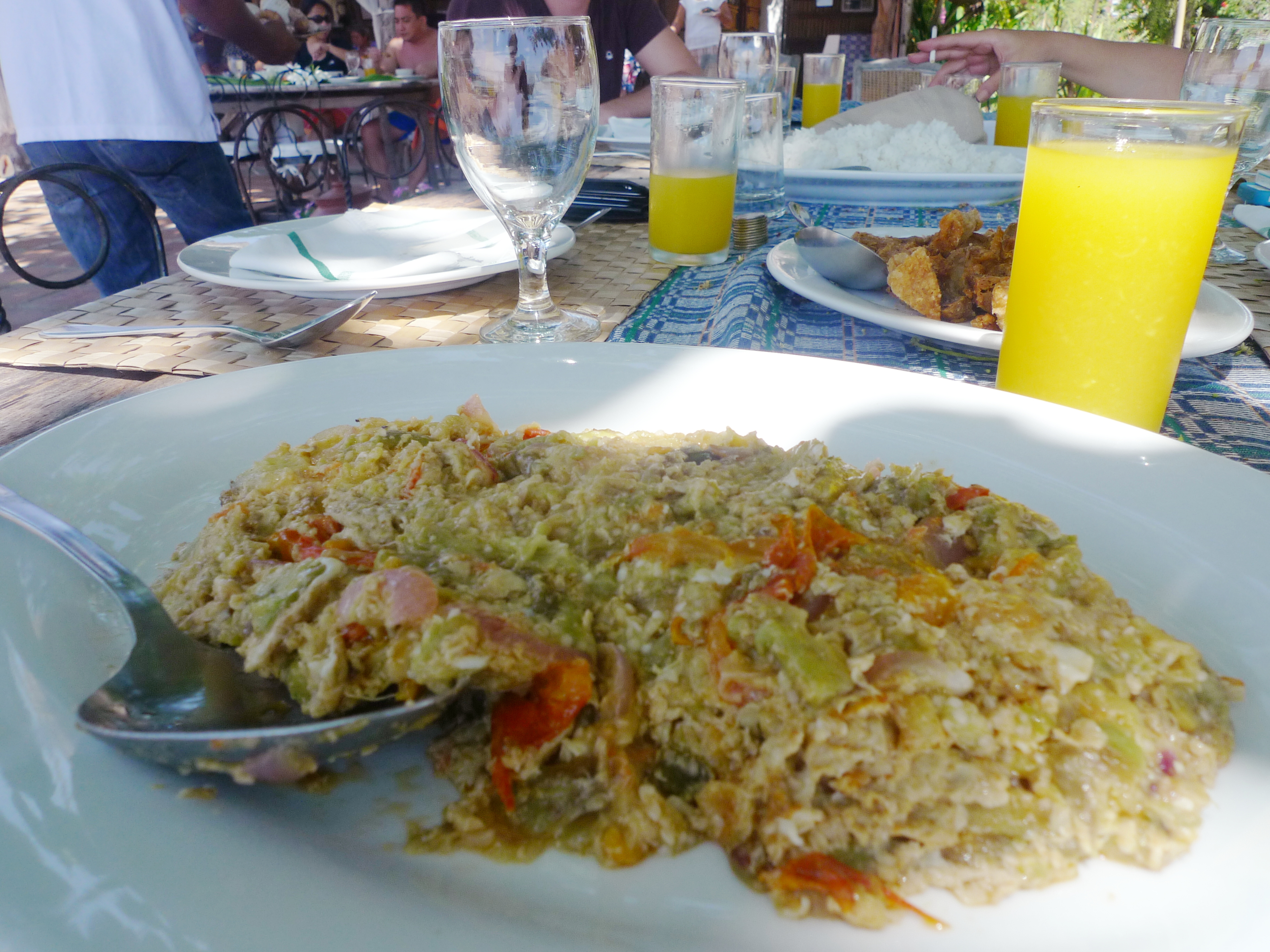 Ilocos Norte Currimao Sitio Remedios - Poqui Poqui